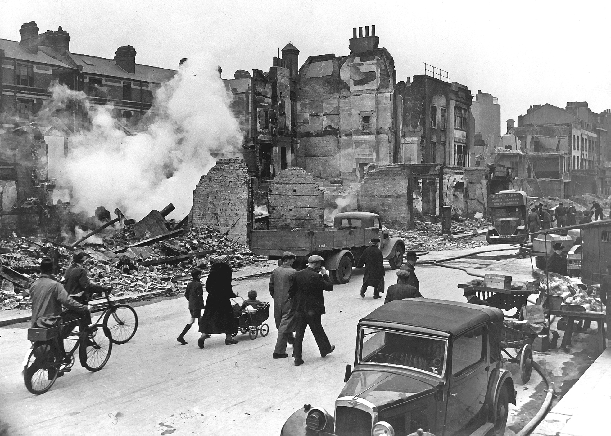 Injuries brought about during the bombing of London.